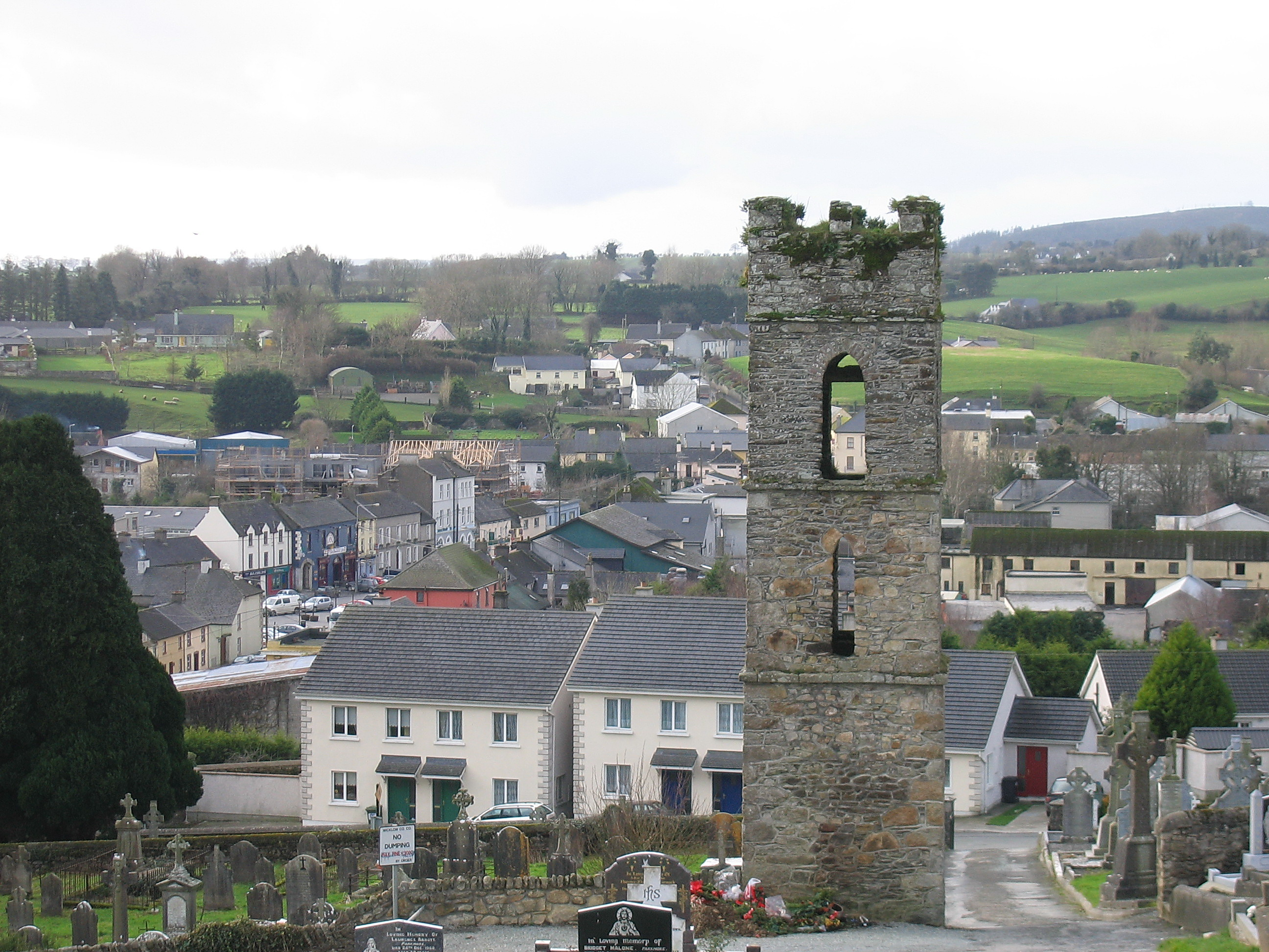 Baltinglass, from Church Hill